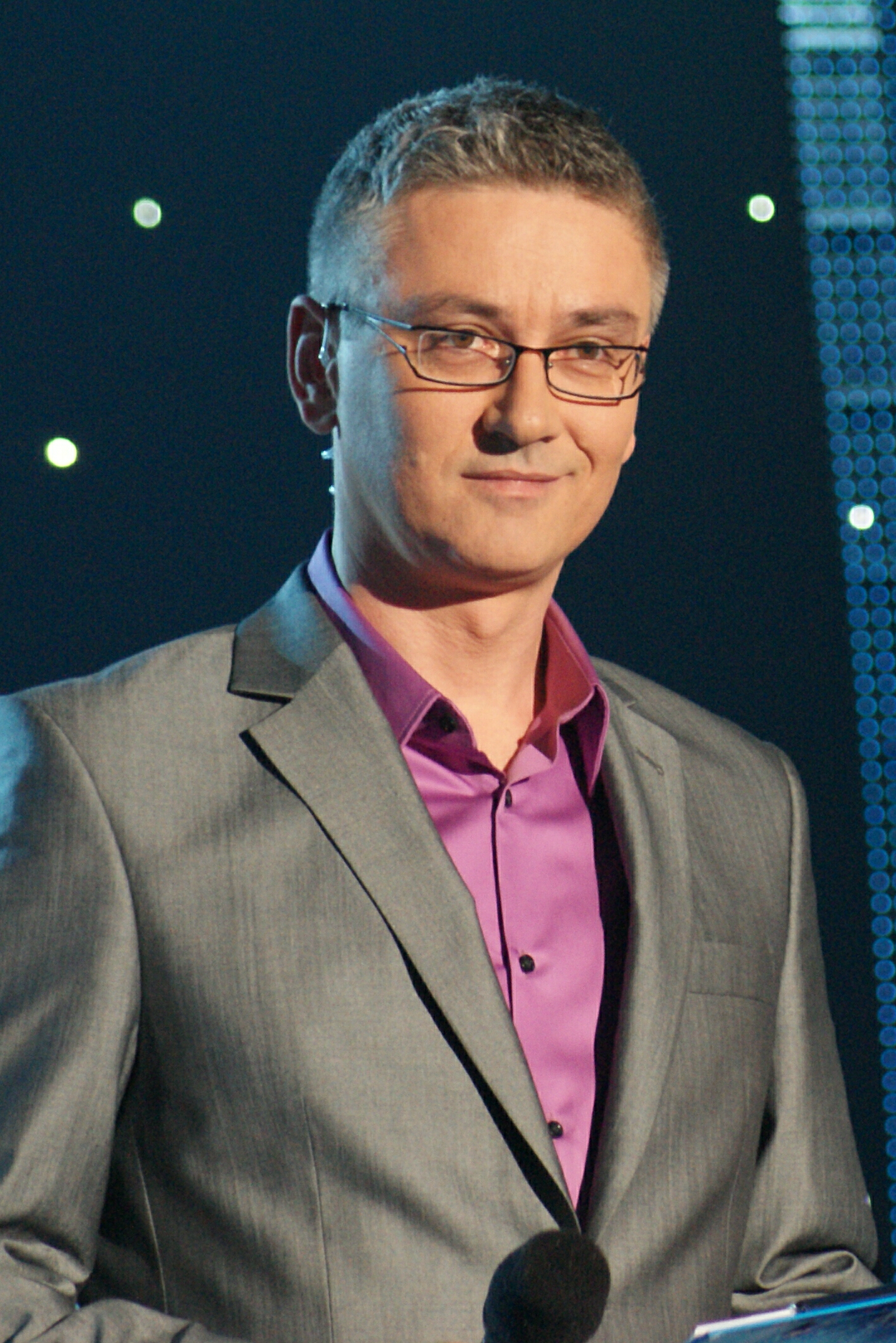 Artur Orzech